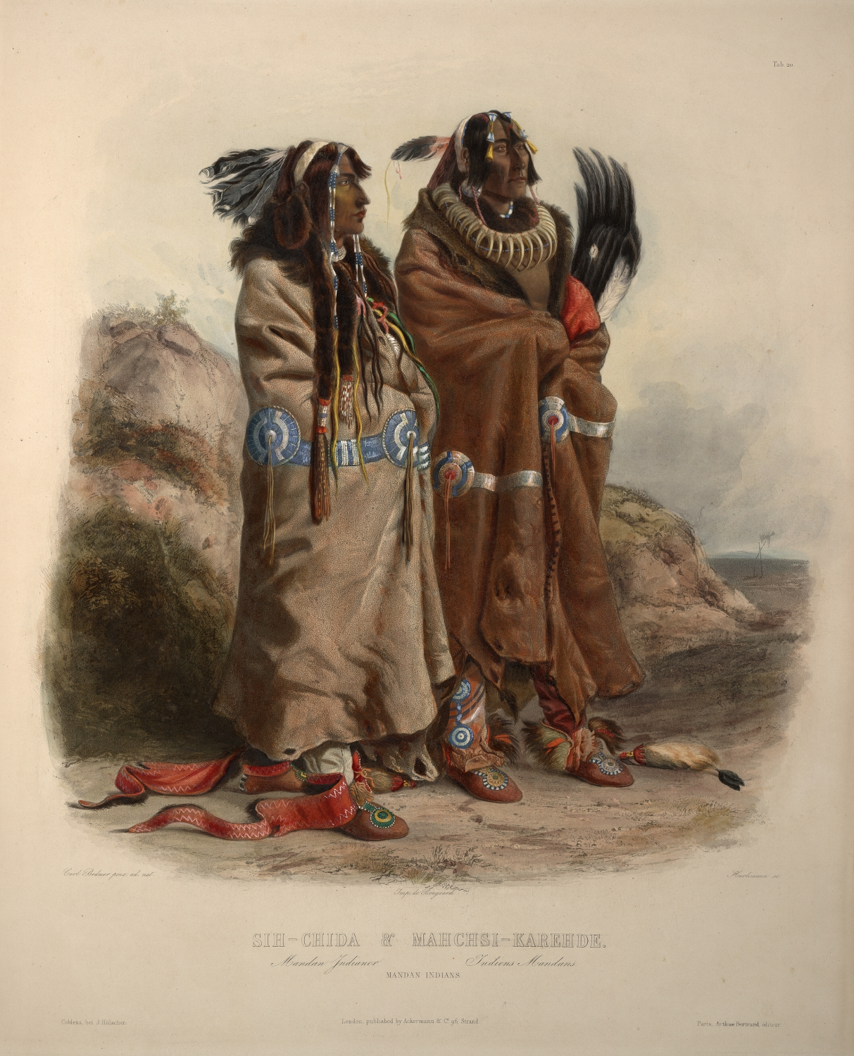 Aquatint by Karl Bodmer (1809 - 1893)